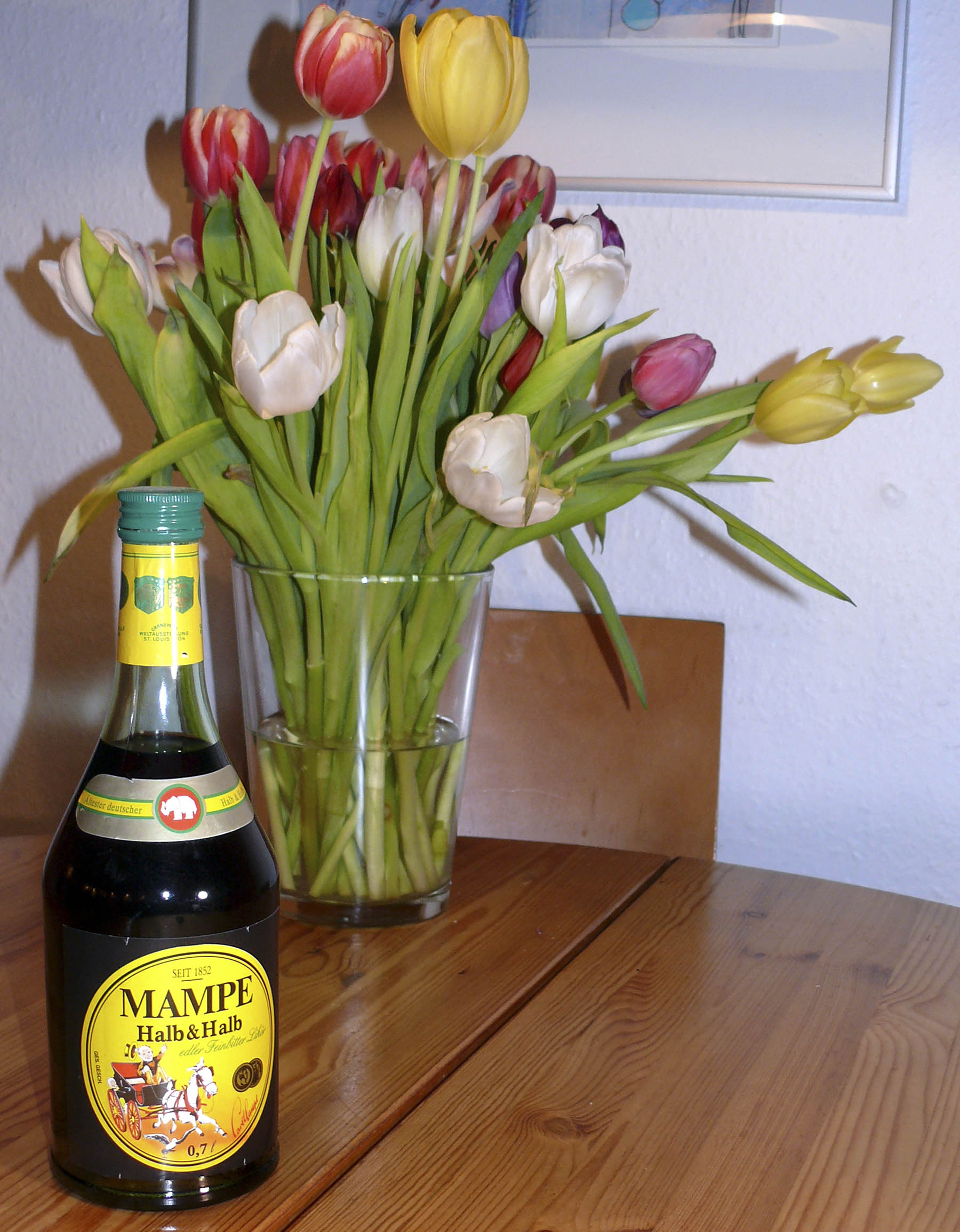 Mampe Halb und Halb